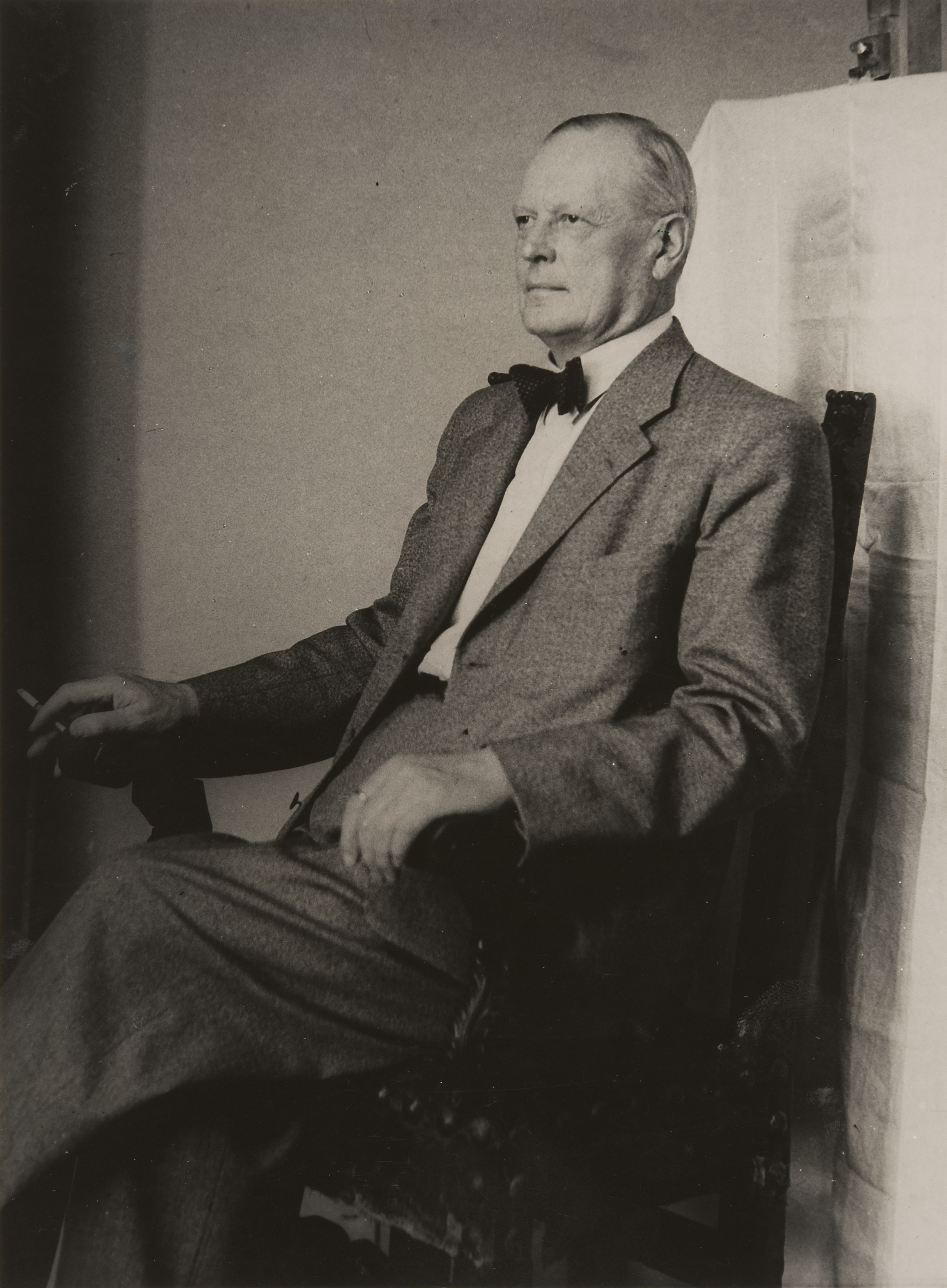 Photograph of the Finnish business executive Eino Liljeroos (1882–1977).